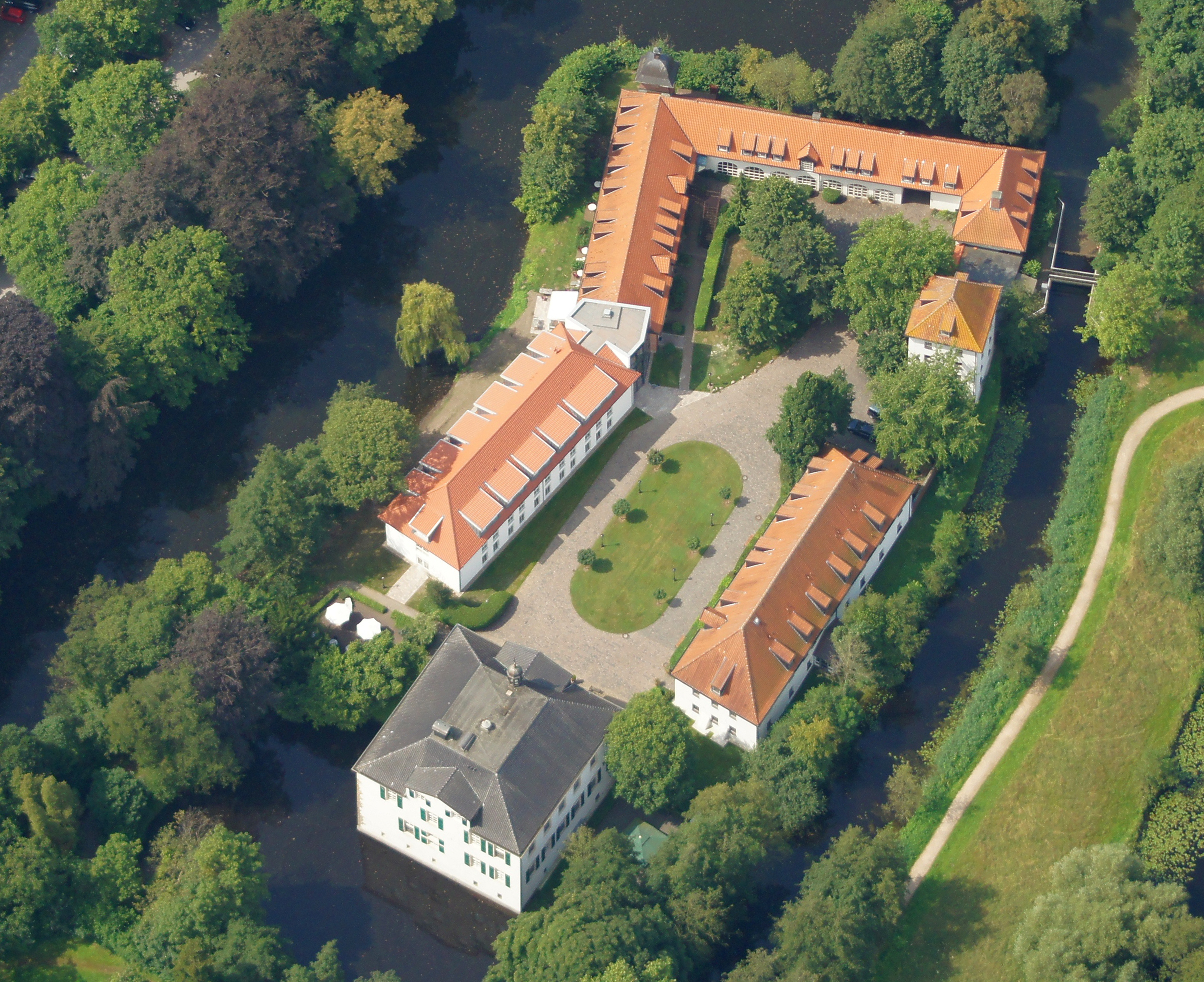 Haus Pröbsting is a castle in Borken, district of Borken in North Rhine-Westphalia, Germany.